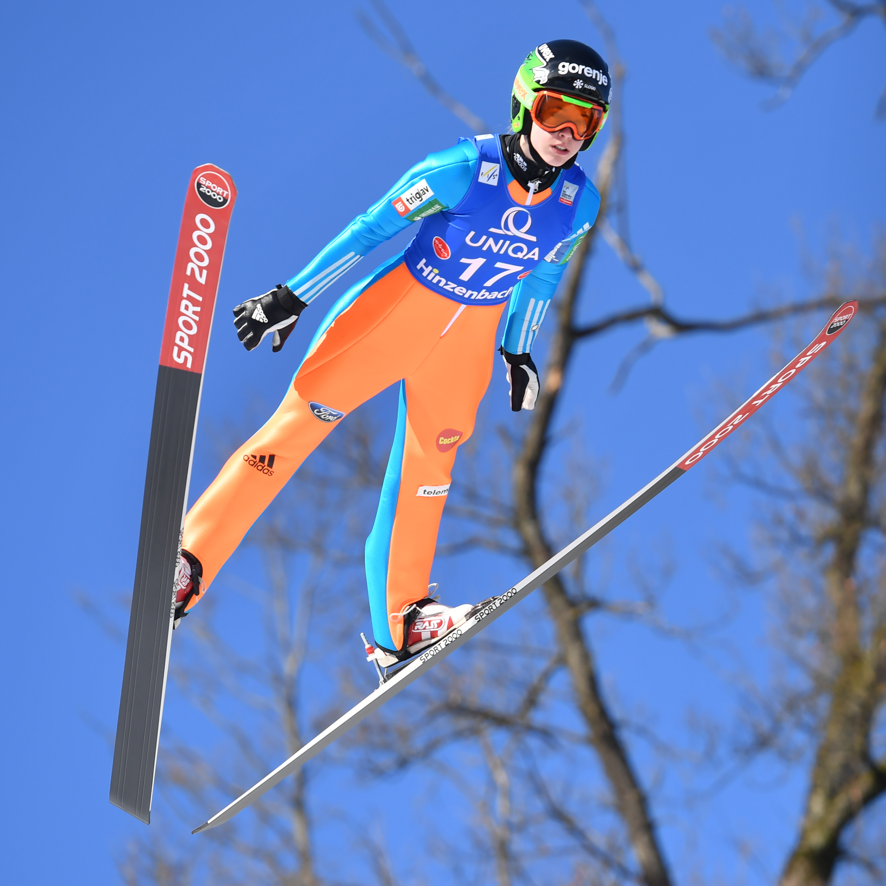 05/02/17, Hinzenbach, Austria, FIS Ski Jumping World Cup Ladies 2017